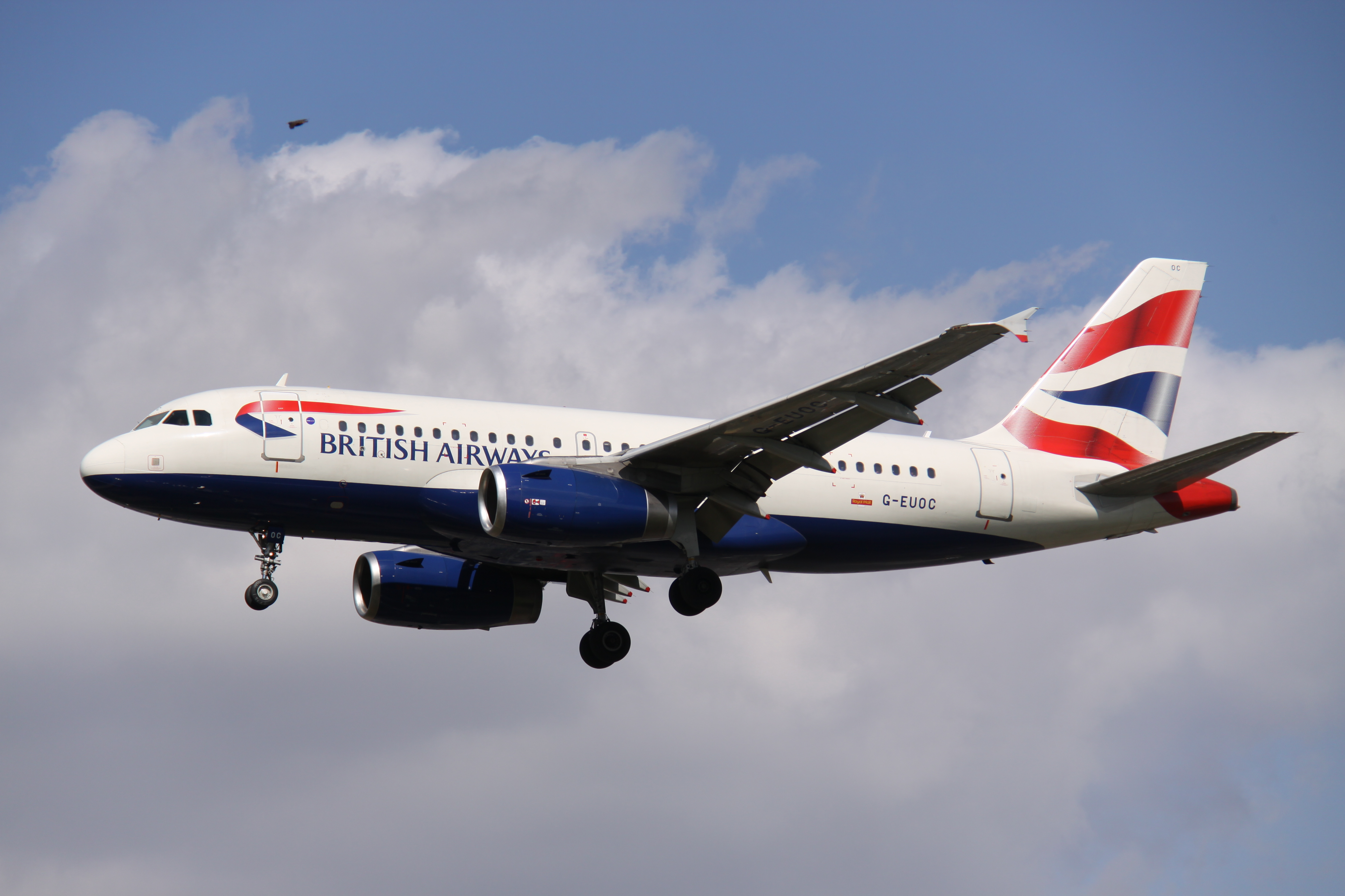 At London Heathrow